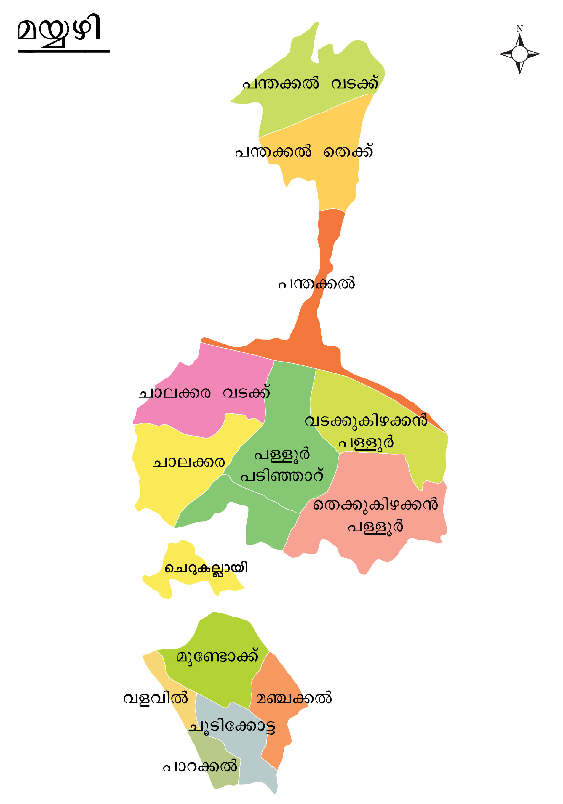 The district of Mahe, one of the four districts of the Union Territory of Puducherry